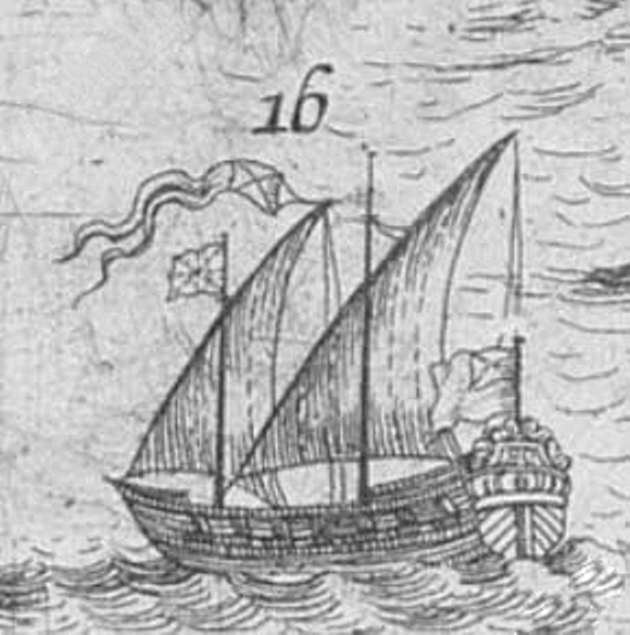 Two masted tartane from etching of Pieter Picart